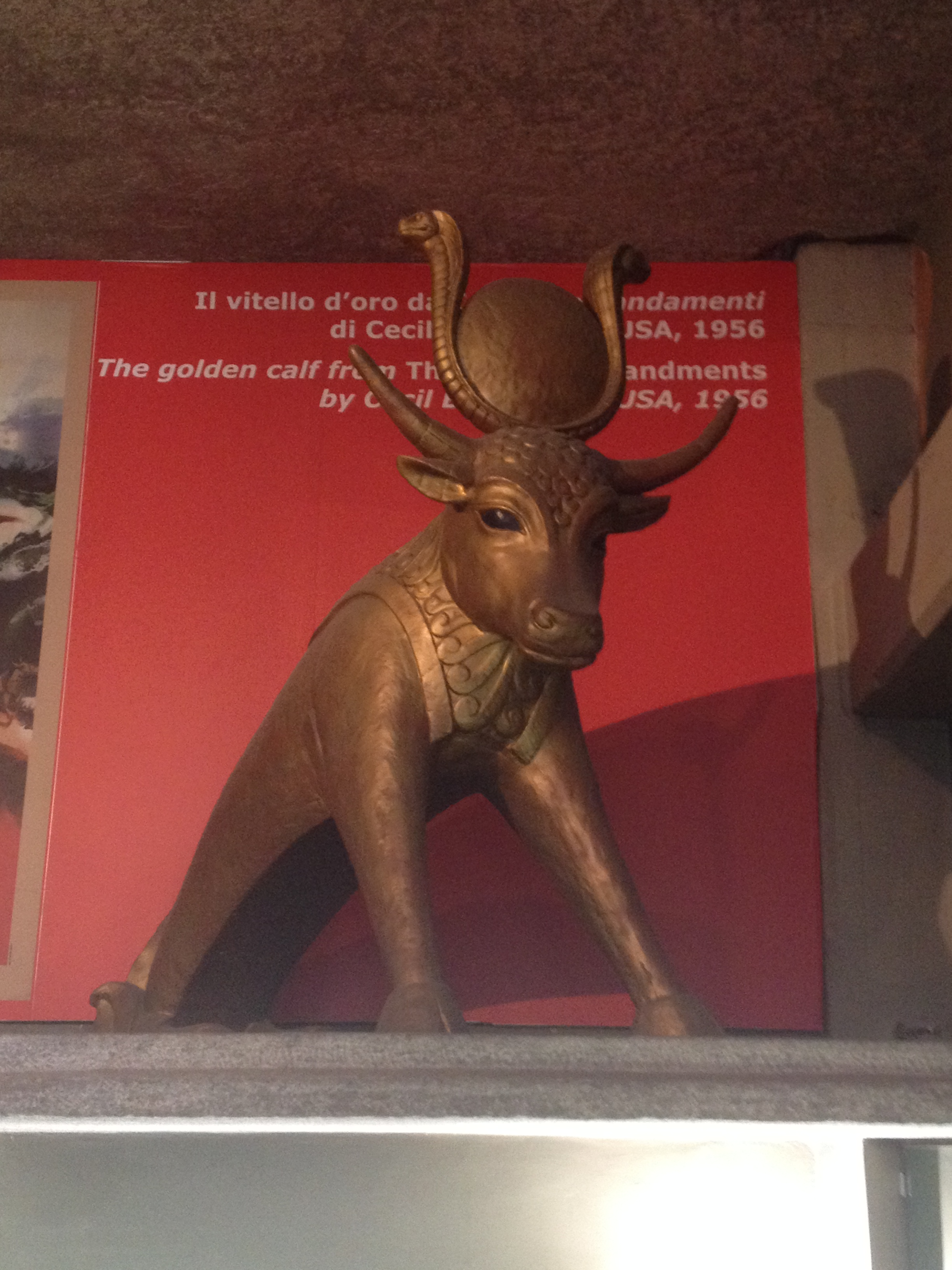 Golden calf used in the 1956 film The Ten Commandments. Preserved in Museo des Cinema in Torino, Italy